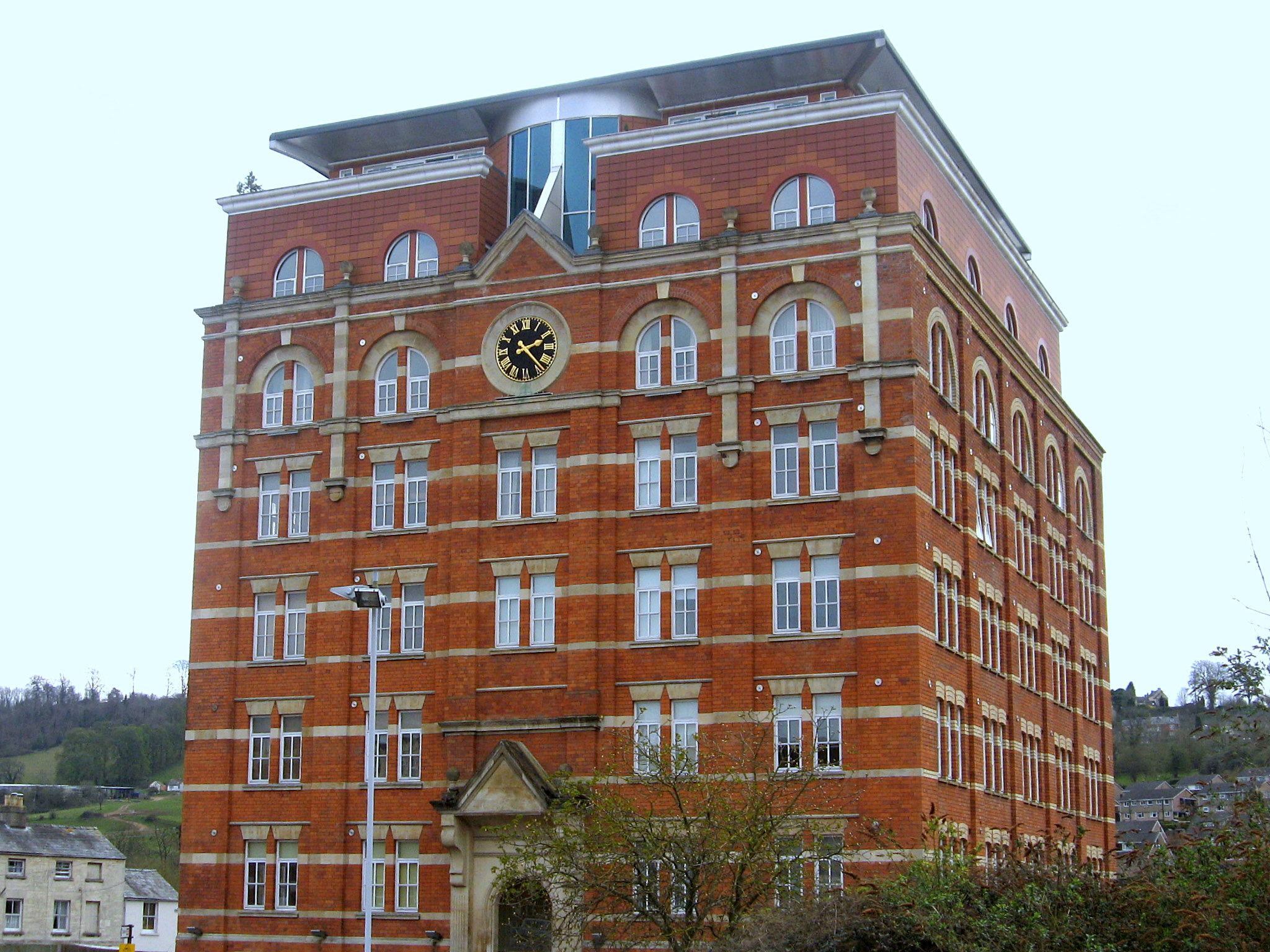 The restored Hill Paul building in Stroud, Gloucestershire